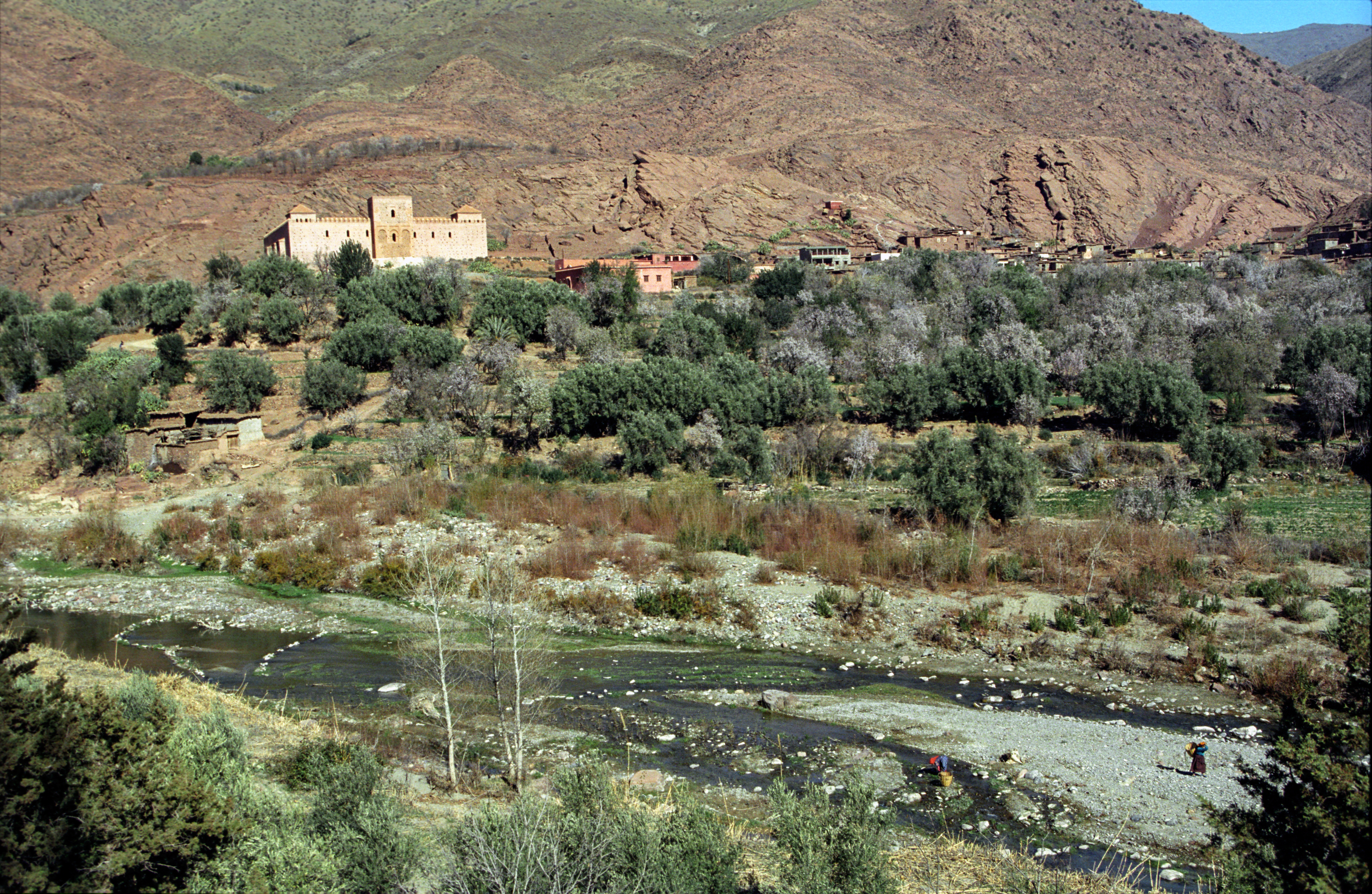 Morocco, mosque, High Atlas